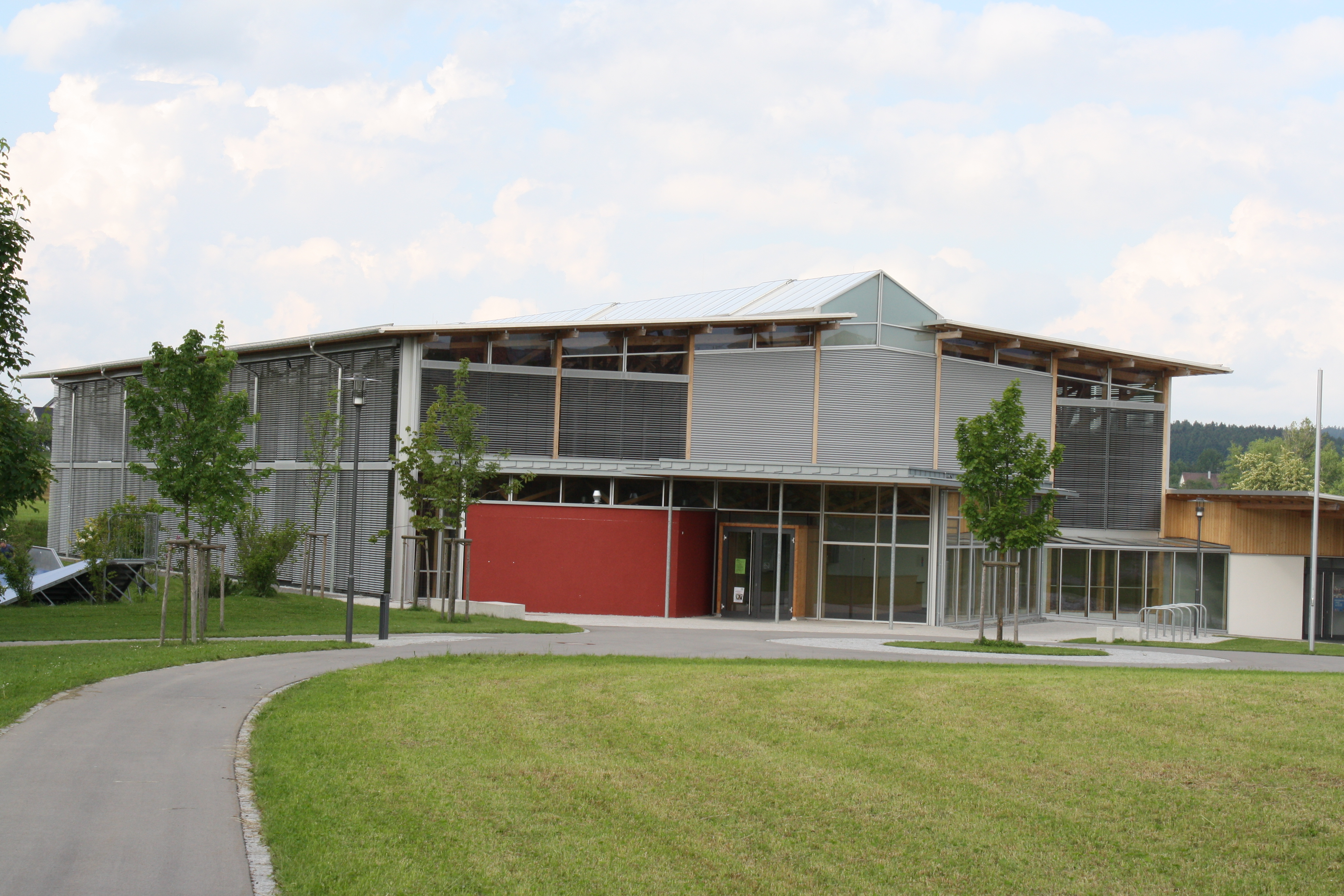 The new sports hall of the municipality Grünkraut